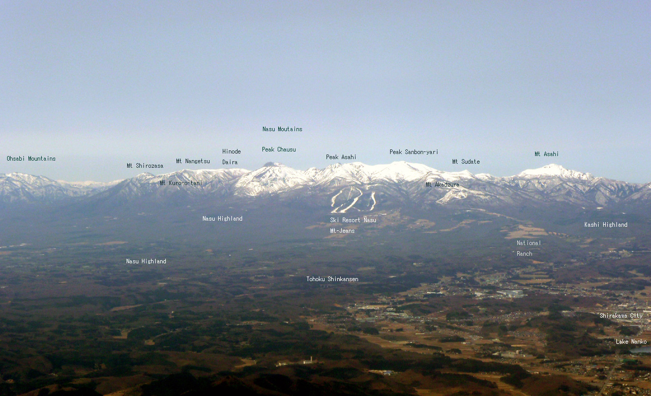 Nasu Moutains seen from east. The main moutain is Peak Chausu which has dome shaped peak in the picture.